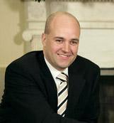 Prime Minister Fredrik Reinfeldt in the Oval Office.